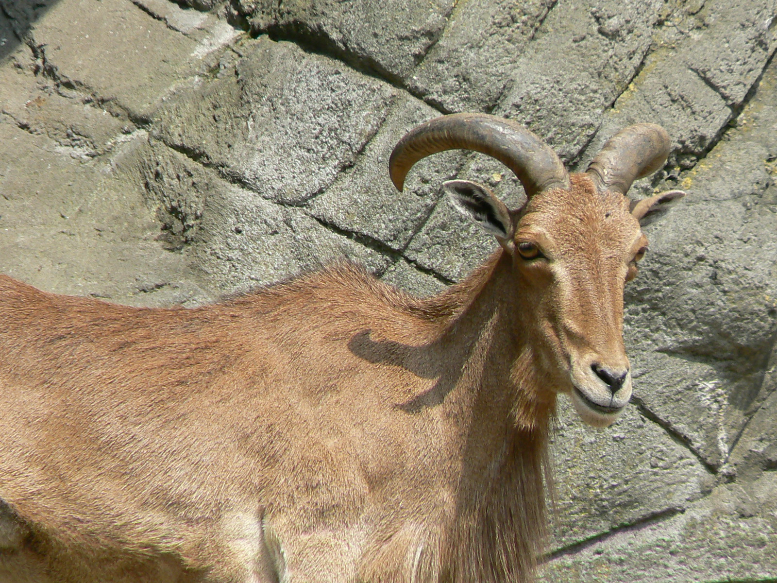 barbary sheep / Ammotragus lervia /Mähnenspringer